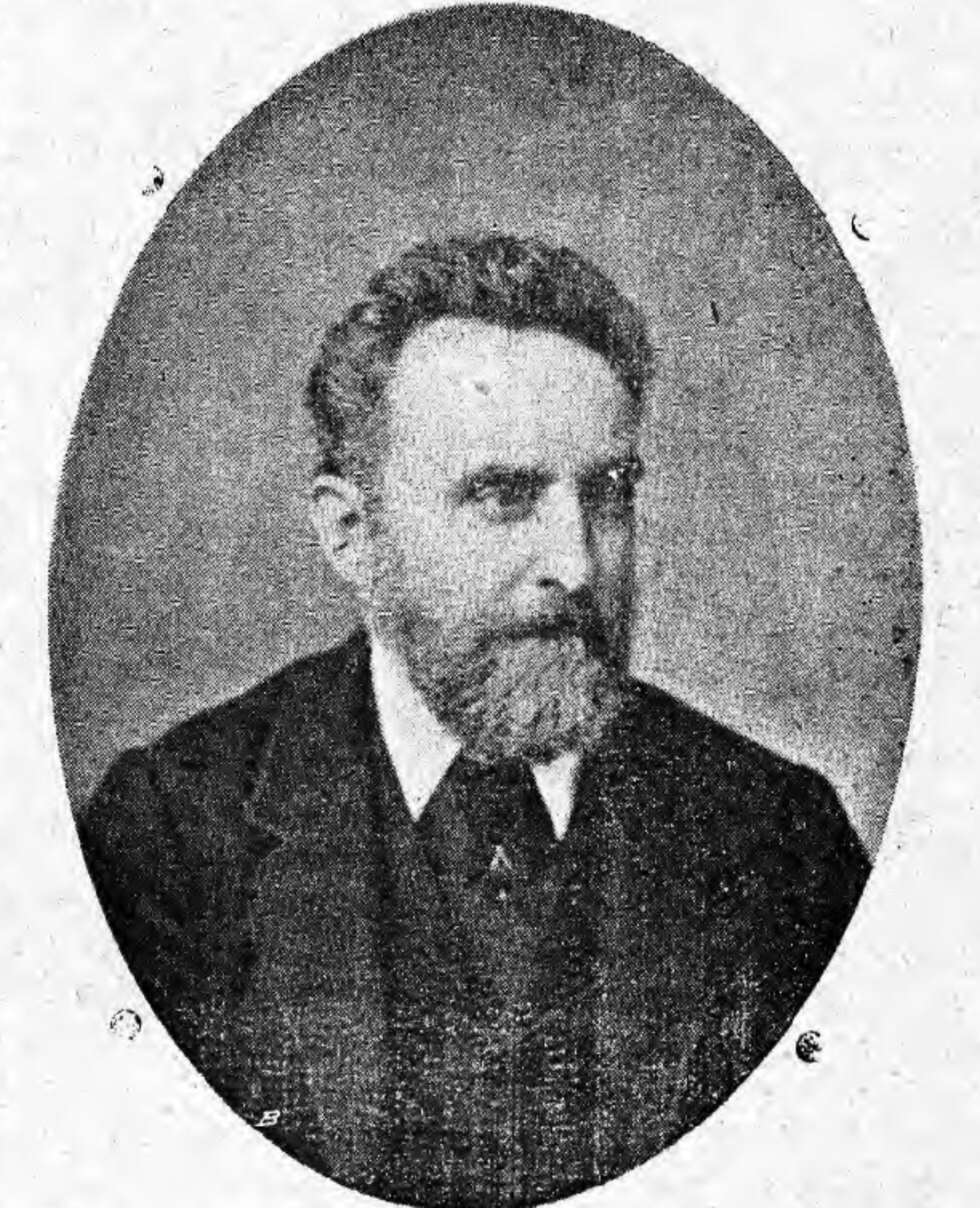 Charles Wilkins (Catwg 1831 - 1913) author of books about Welsh history and culture